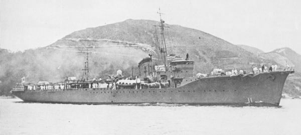 Japanese minelayer "Hatsutaka" at Aioi, completed at Harima shipyard on Oct 31, 1939.